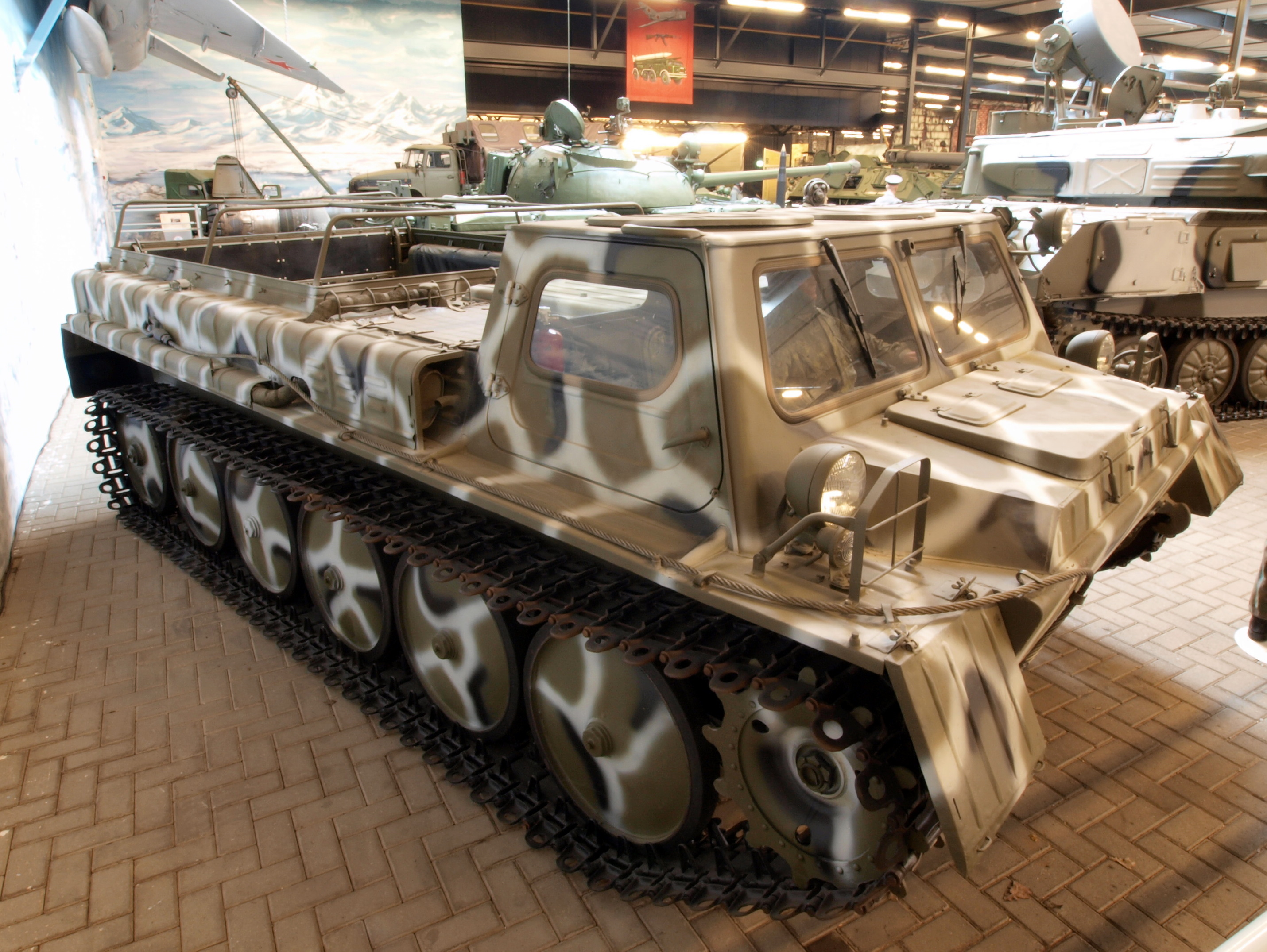 Photographed at the Marshallmuseum - Liberty Park - Oorlogsmuseum Overloon, The Netherlands. OLYMPUS DIGITAL CAMERA